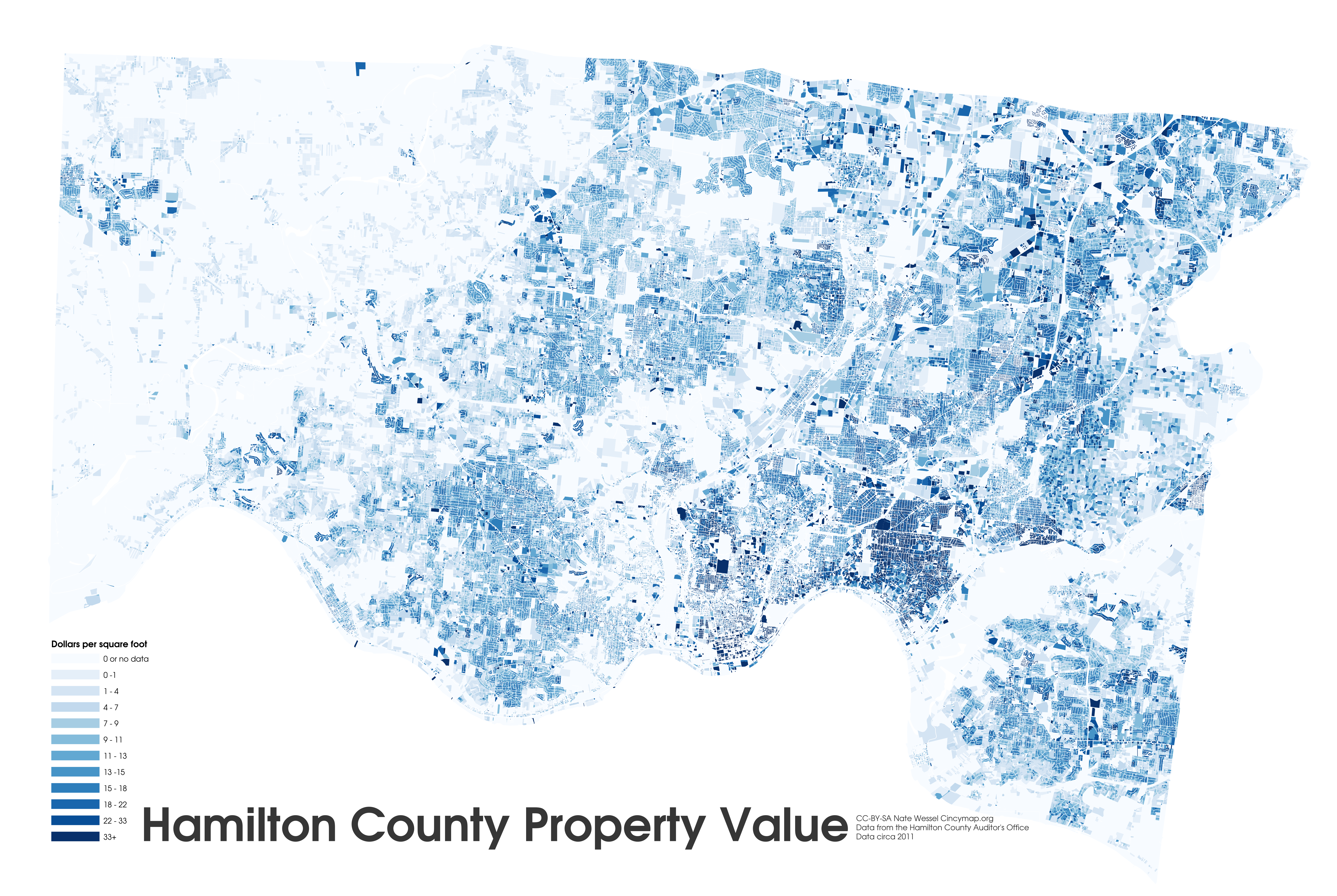 Property value of Hamilton County Ohio in dollars per square foot as assessed by the Hamilton County Auditor in 2011.